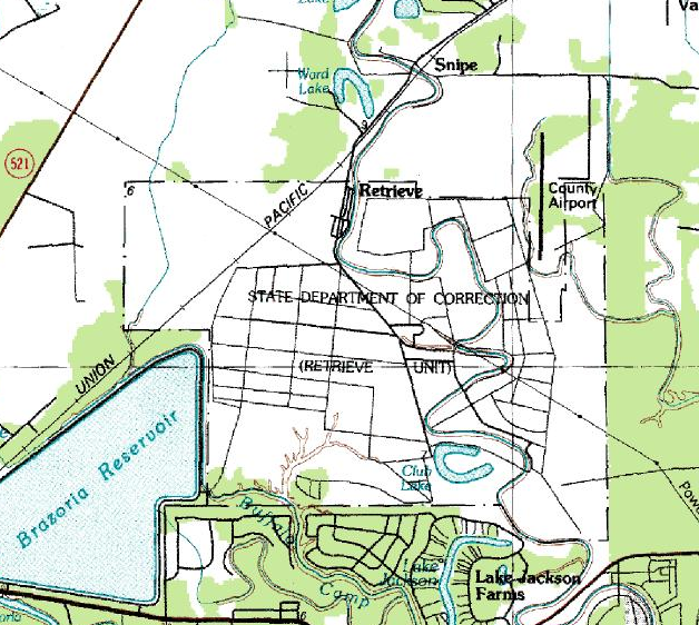 A topographic map of the Retrieve Unit (Wayne Scott Unit) and the Texas Gulf Coast Regional Airport (Brazoria County Airport) in Texas